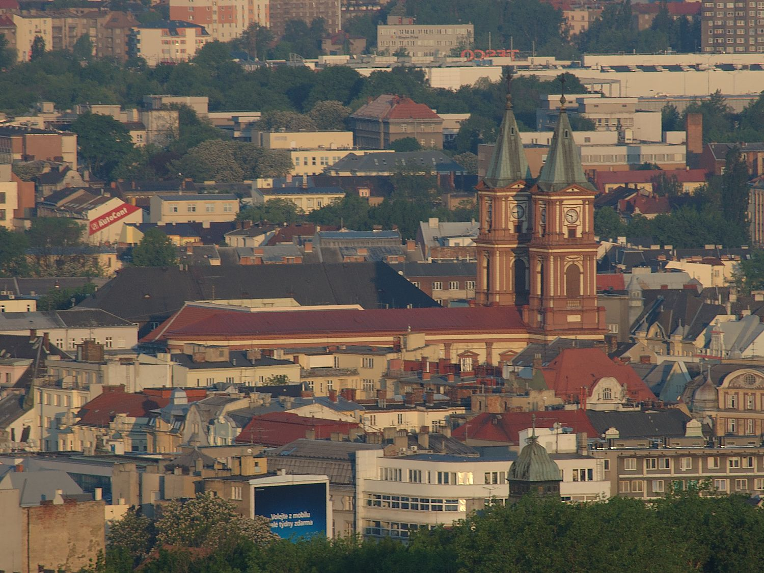 Cathedral of the Divine Saviour, Ostrava, Czech Republic